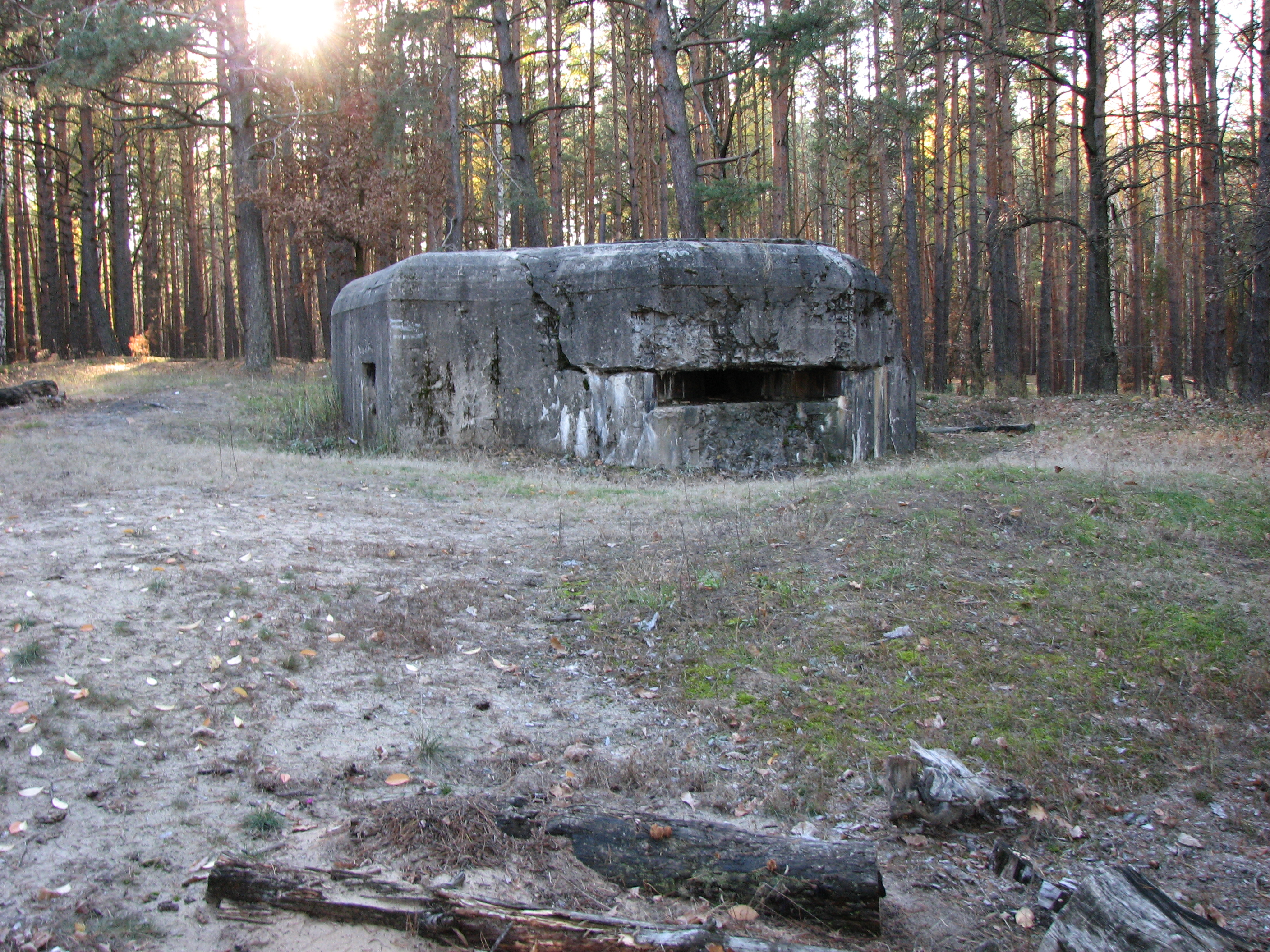 Pillbox 511 (Kyiv Fortified Region)